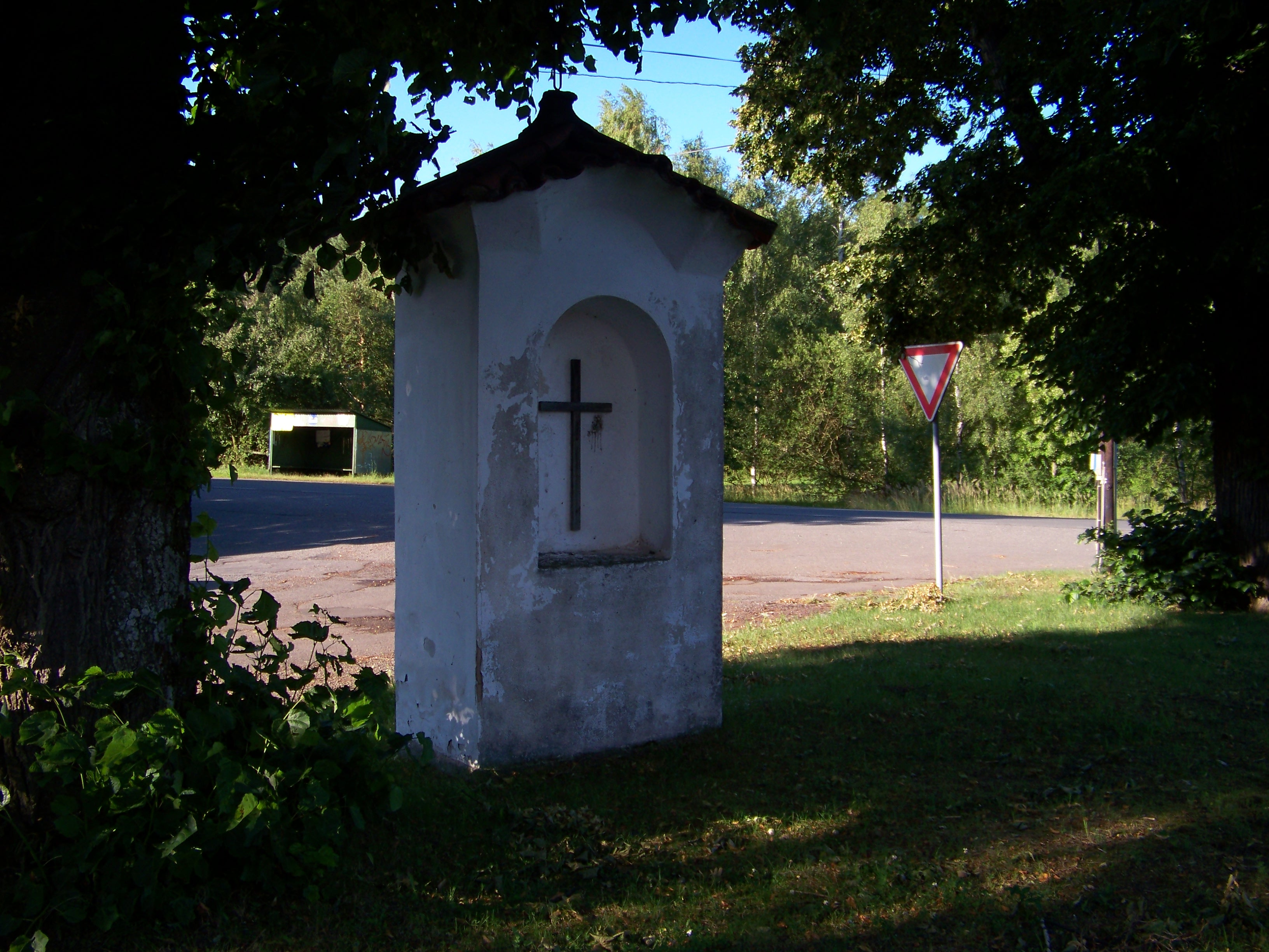 Milín-Slivice, Příbram District, Central Bohemian Region, the Czech Republic. Station of the Cross and a bus stop.